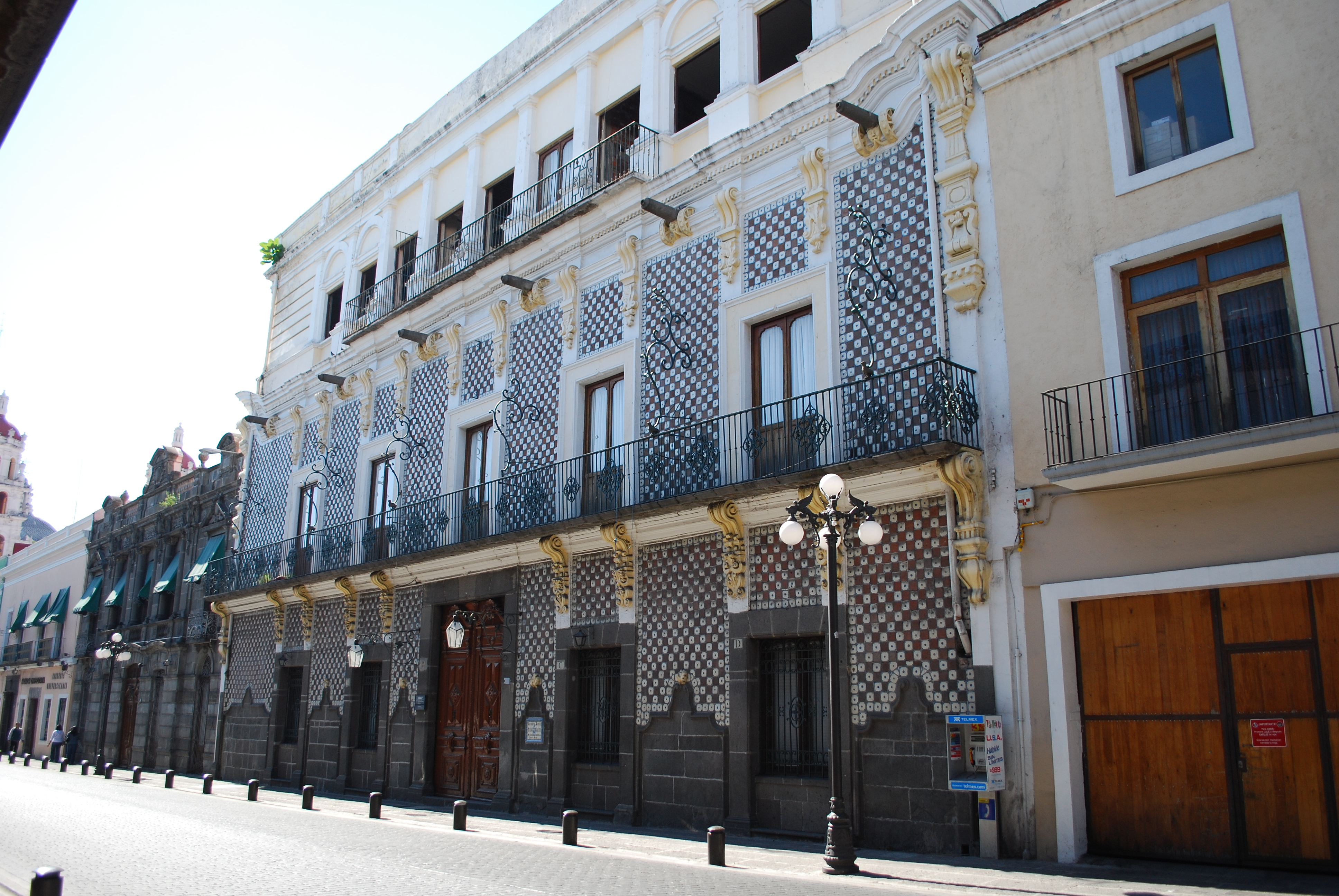 Direction of Libraries for BUAP on Palafox Street in the historic center of Puebla, Mexico